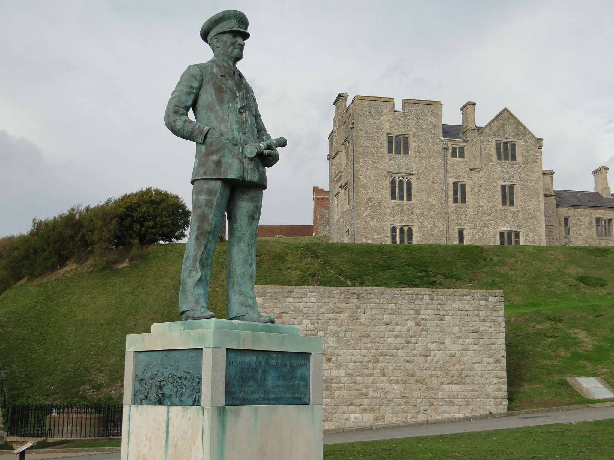 Statue of Sir Bertram Ramsay in the grounds of Dover Castle